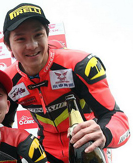 Chow Ho Wan celebrates his podium finish in the China Superbike Championship with a bottle of champagne.